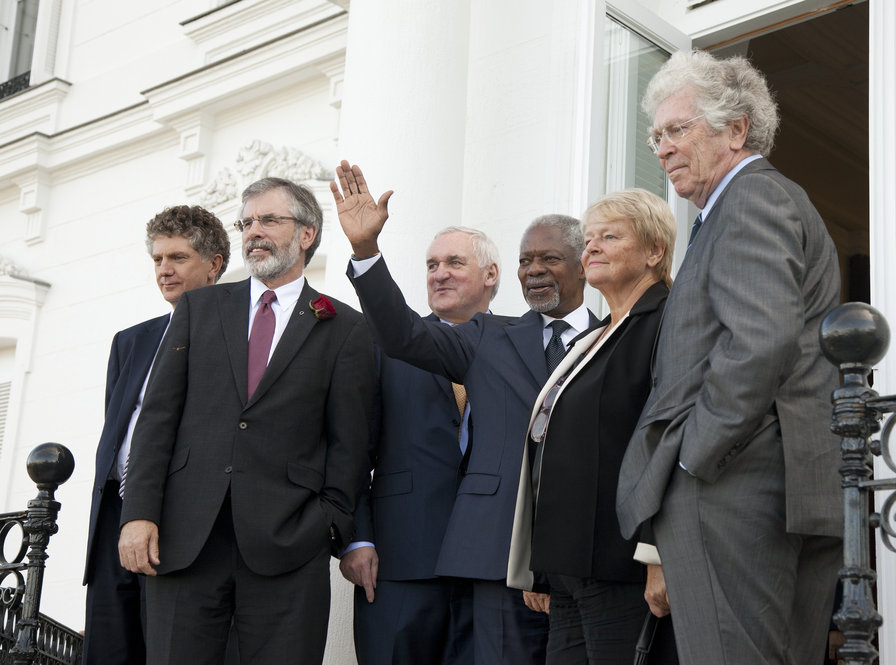 International delegation in the International Conference to Promote the resolution of the conflict in the Basque Country: Jonathan Powell, Gerry Adams, Bertie Ahern, Kofi Annan, Gro Harlem Brundtland and Pierre Joxe.